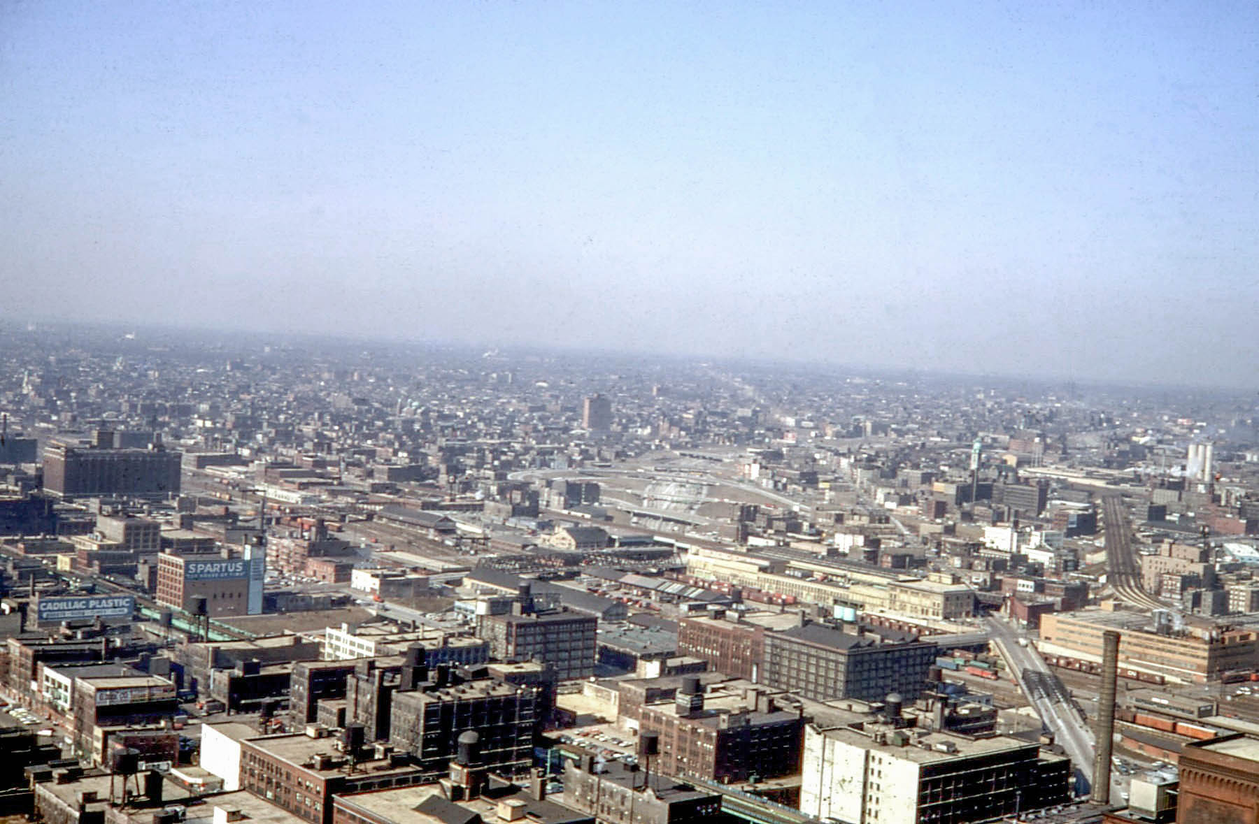 19680222 18 Northwest from Kemper Insurance Bldg Chicago